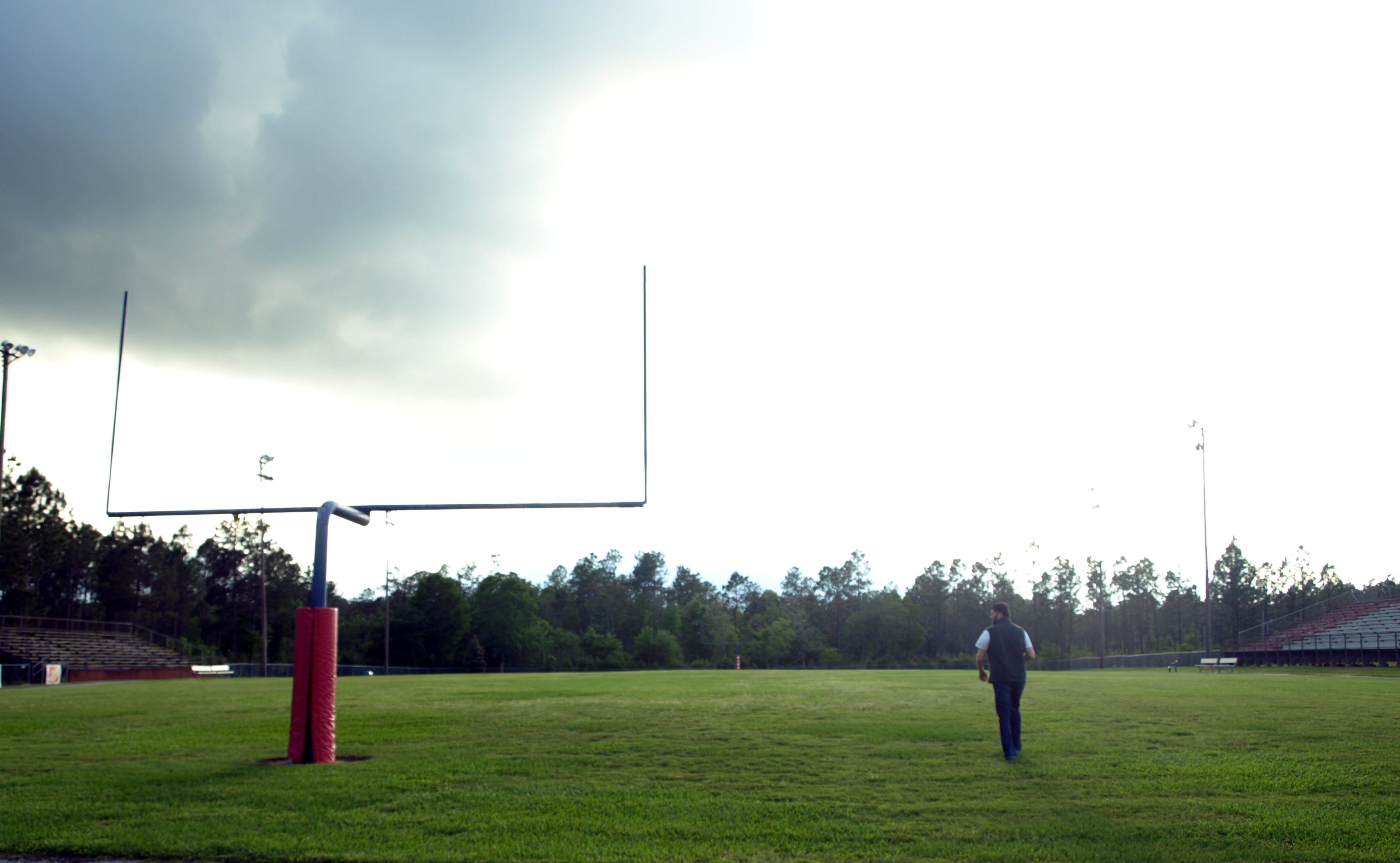 Hancock North Central High School's former football field, where Pro Football Hall of Fame player Brett Favre once played on while in high school.